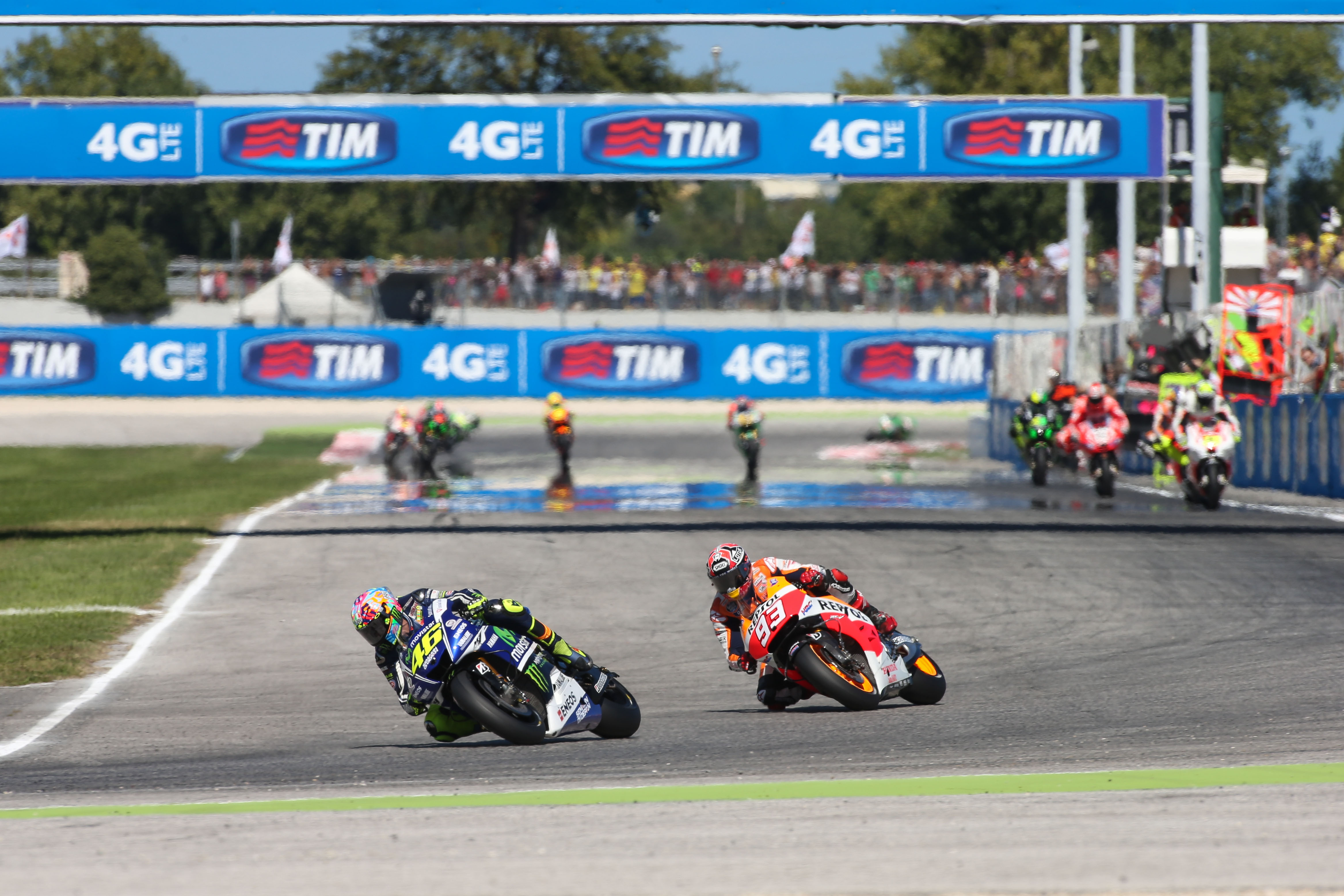 Valentino Rossi, riding his Movistar Yamaha, leading a group of front and midfield runners at the 2014 San Marino and Rimini's Coast Grand Prix.